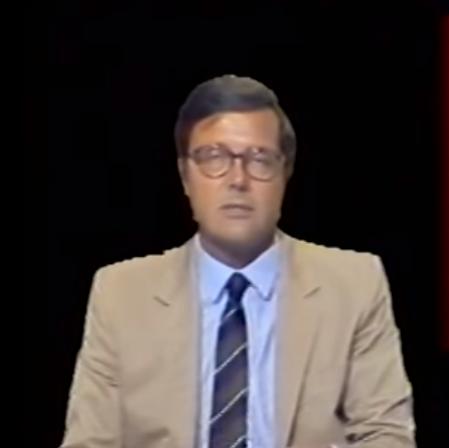 Giancarlo Santalmassi, italian journalist of Italian Tv state broadcast Rai TG2 in 1983